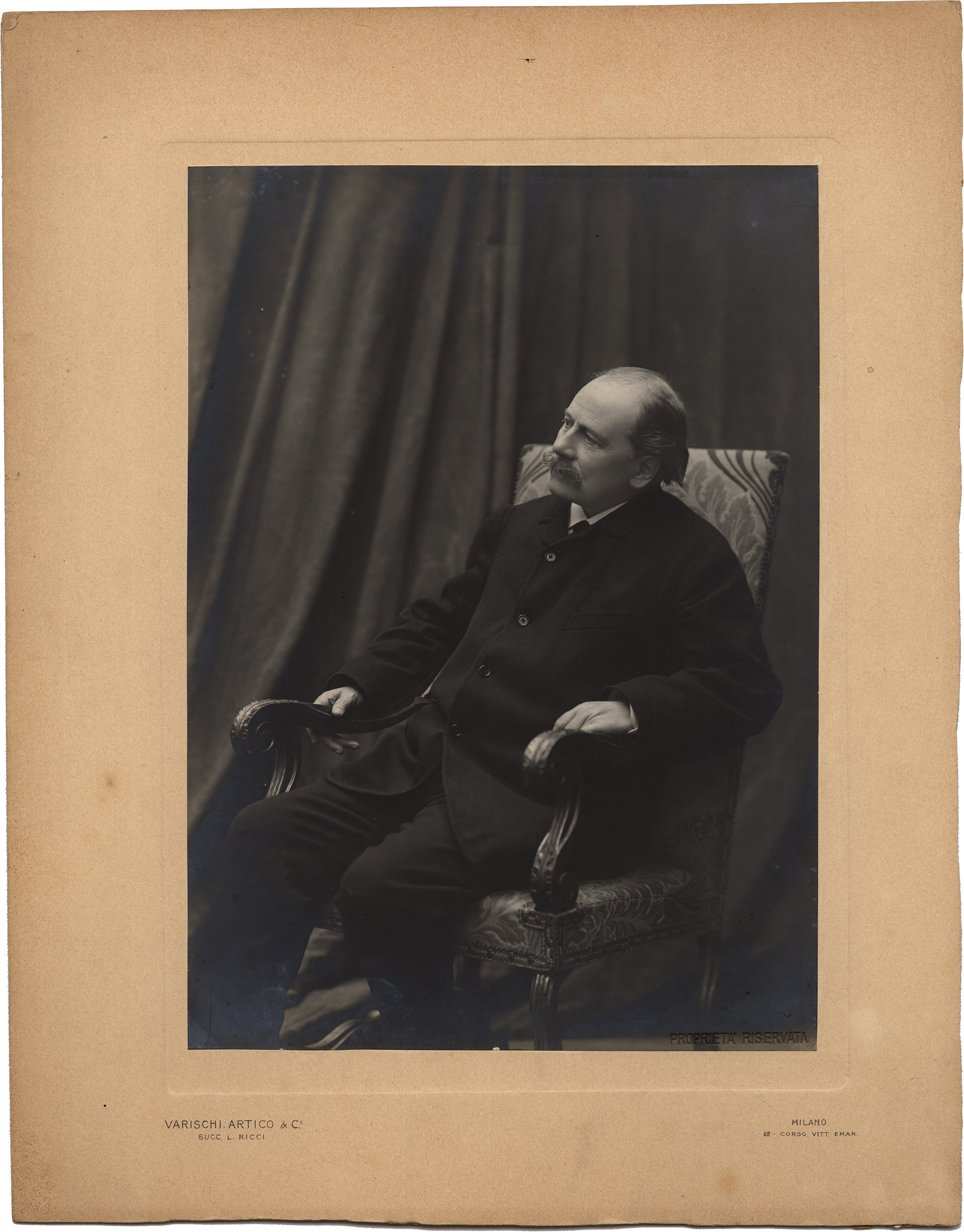 Portrait of Jules Massenet, composer (1842-1912). Photo by Varischi e Artico, Milano, 1903.